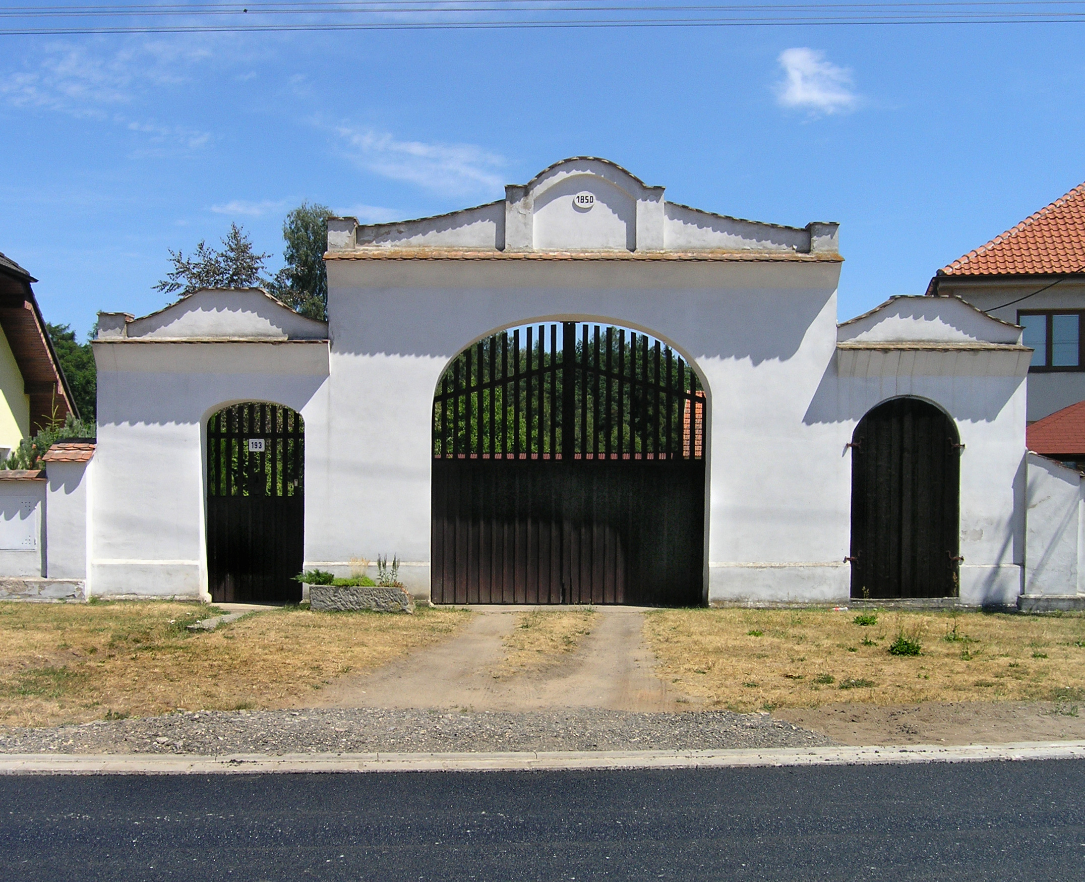 Portal in Živanice, Czech Republic